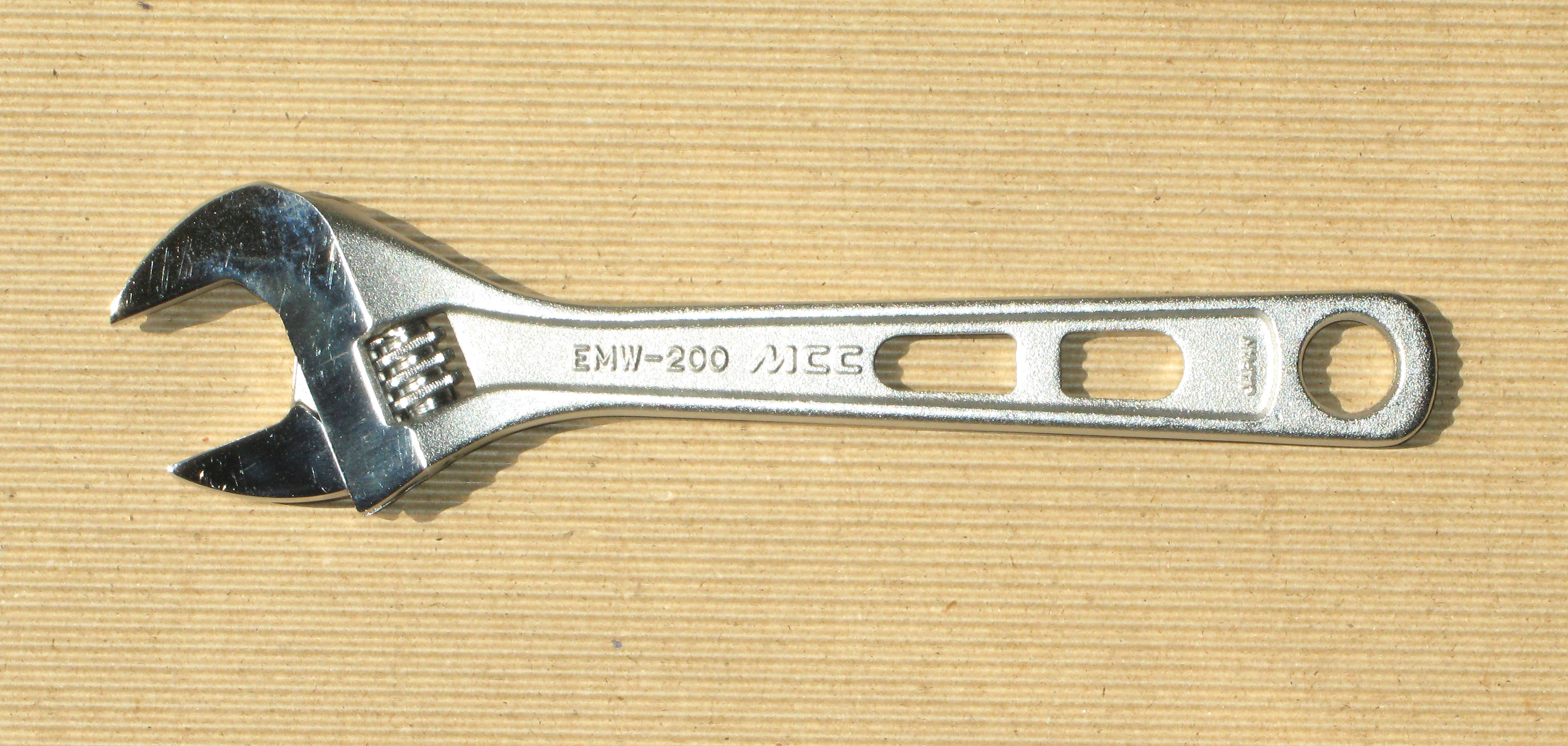 Heavy duty all drop-forged alloy steel. Chrome-plated Finish. MCC Brand made in japan.